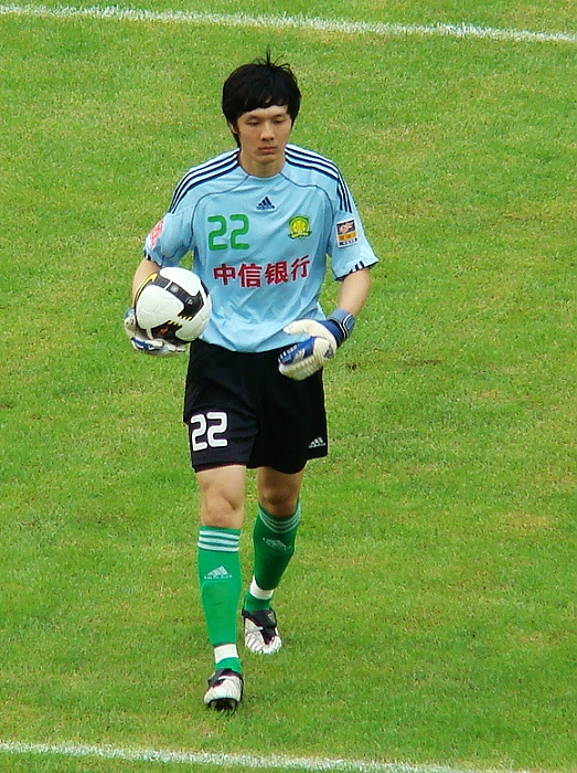 Yang Zhi in Yuexiushan Stadium